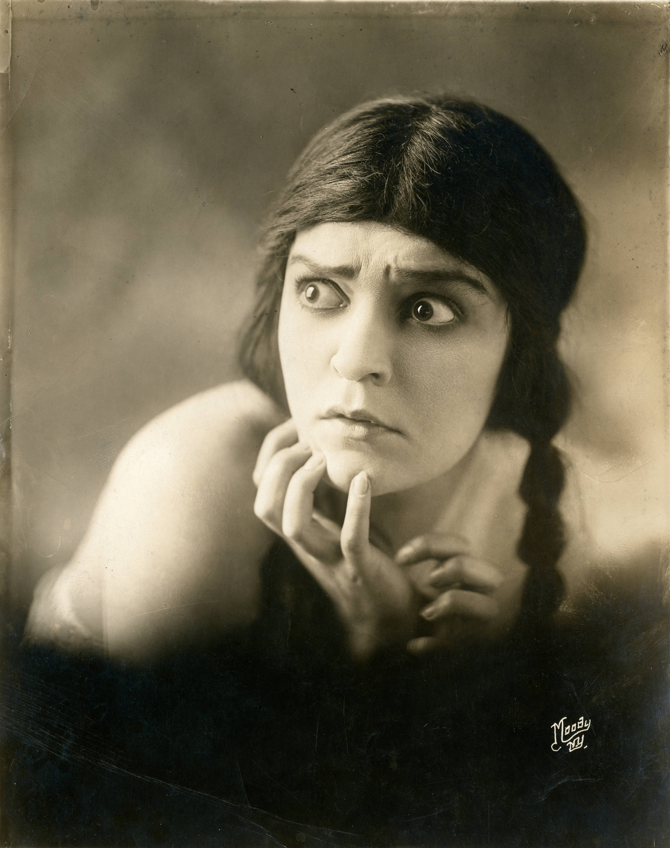 Ballet dancer Ekaterina Galanta. Subjects: dancers